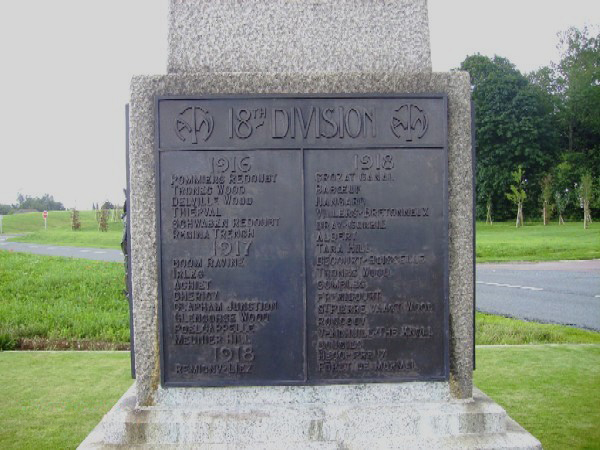 18th Division Memorial Thiepval